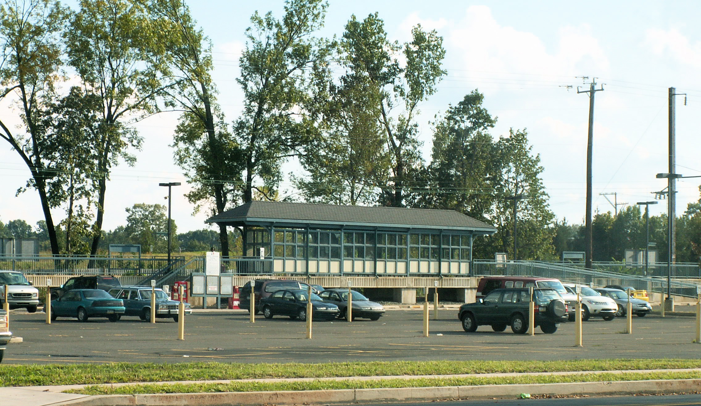 Colmar Train Station SEPTA R5 Line Author: Aaron Kuhn